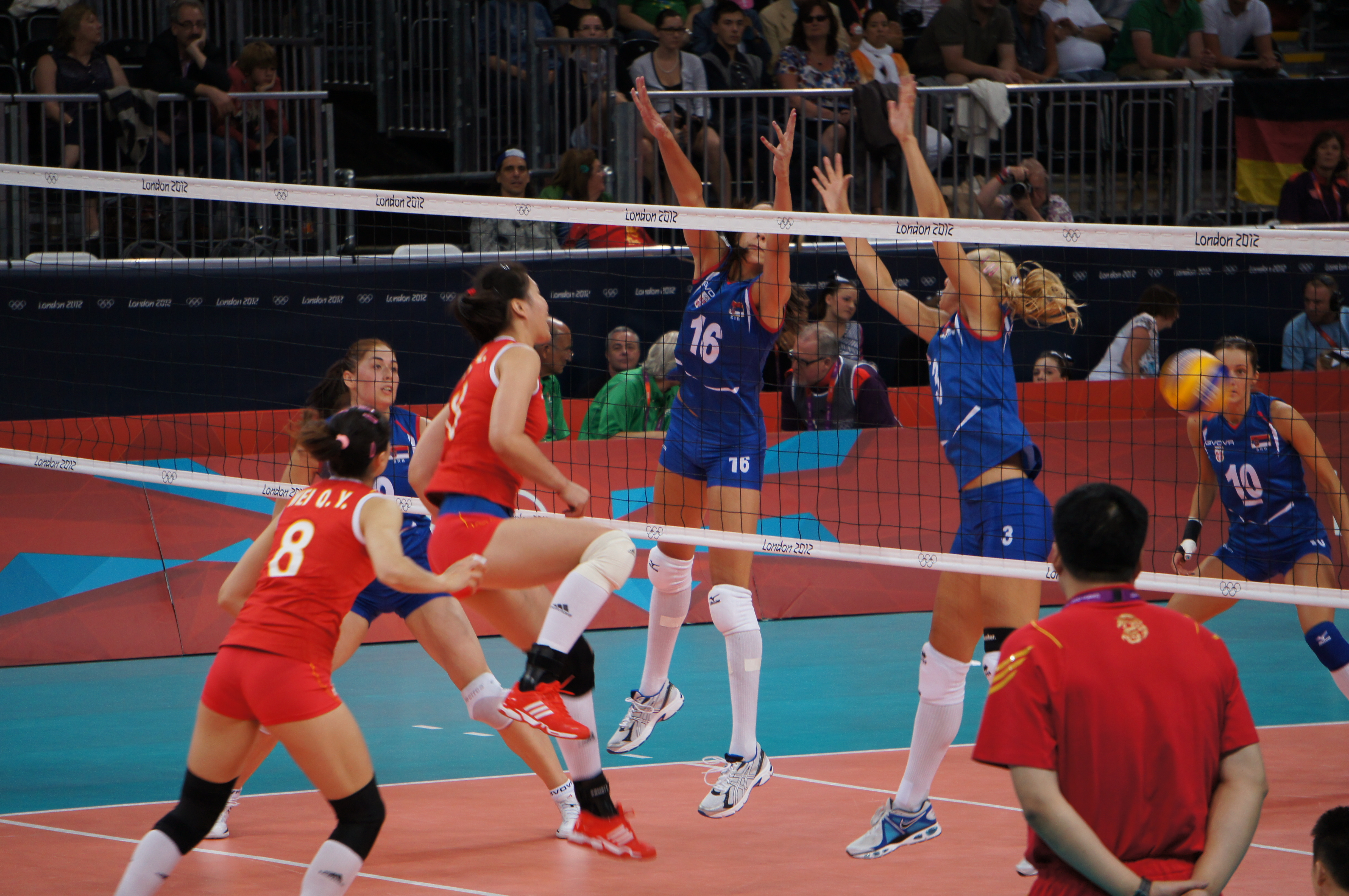 Volleyball at the 2012 Summer Olympics